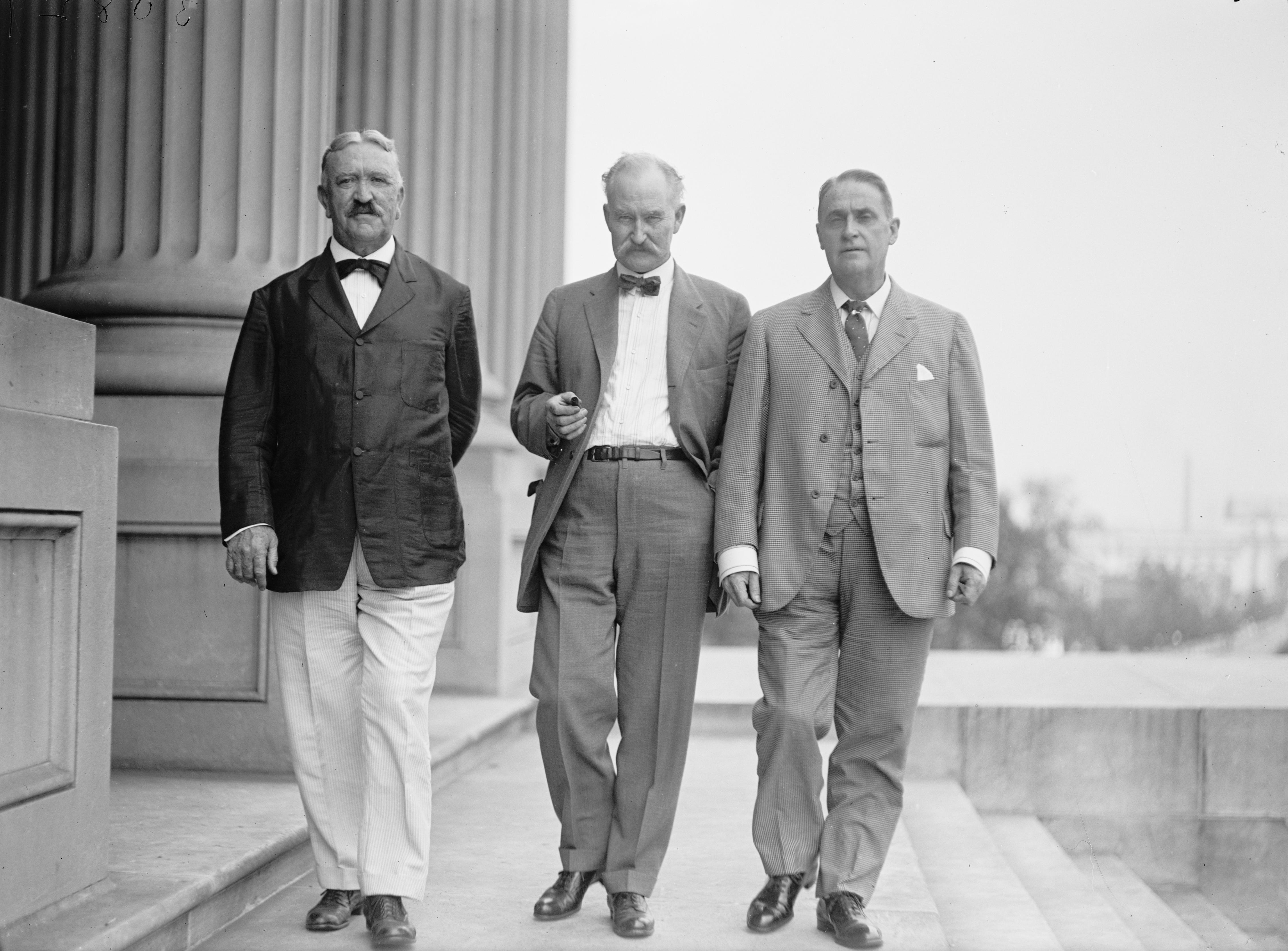 U.S. Senators Marcus Aurelius "Mark" Smith of Arizona (left), Albert B. Fall of New Mexico (center), and Frank B. Brandegee of Connecticut (right) on the steps of the United States Capitol